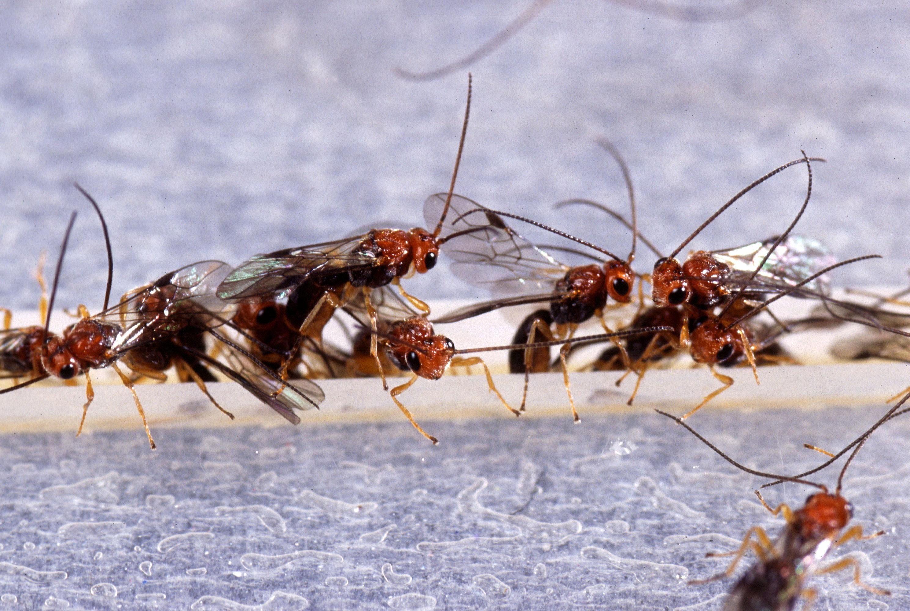 Image title: Biosteres arisanus wasps Image from Public domain images website